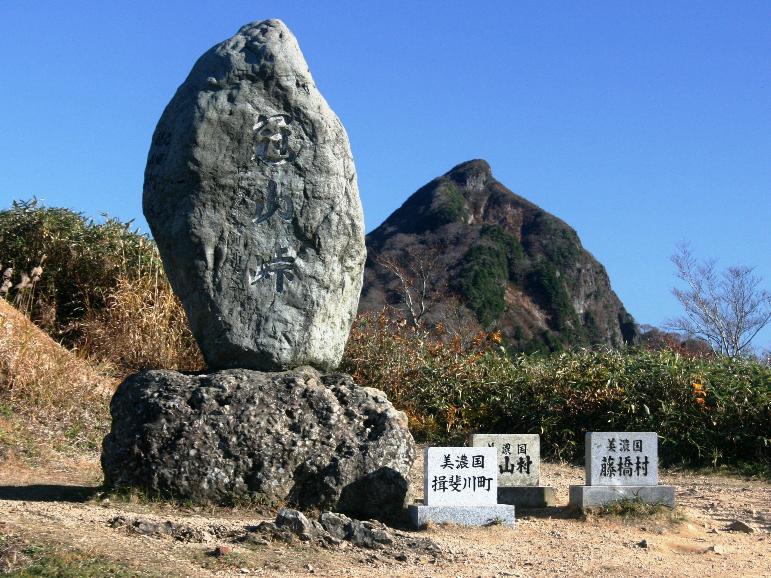 Mount Kanmuri seen from Kanmuriyama Pass